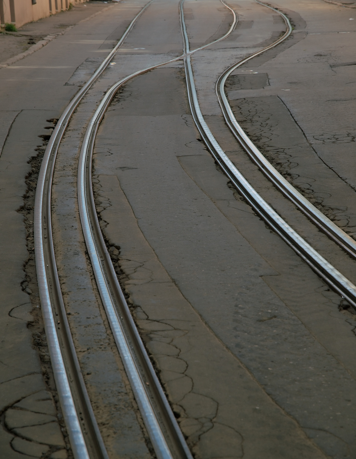 Gauntlet track used by trams in Moscow to fit into a narrow tunnel.